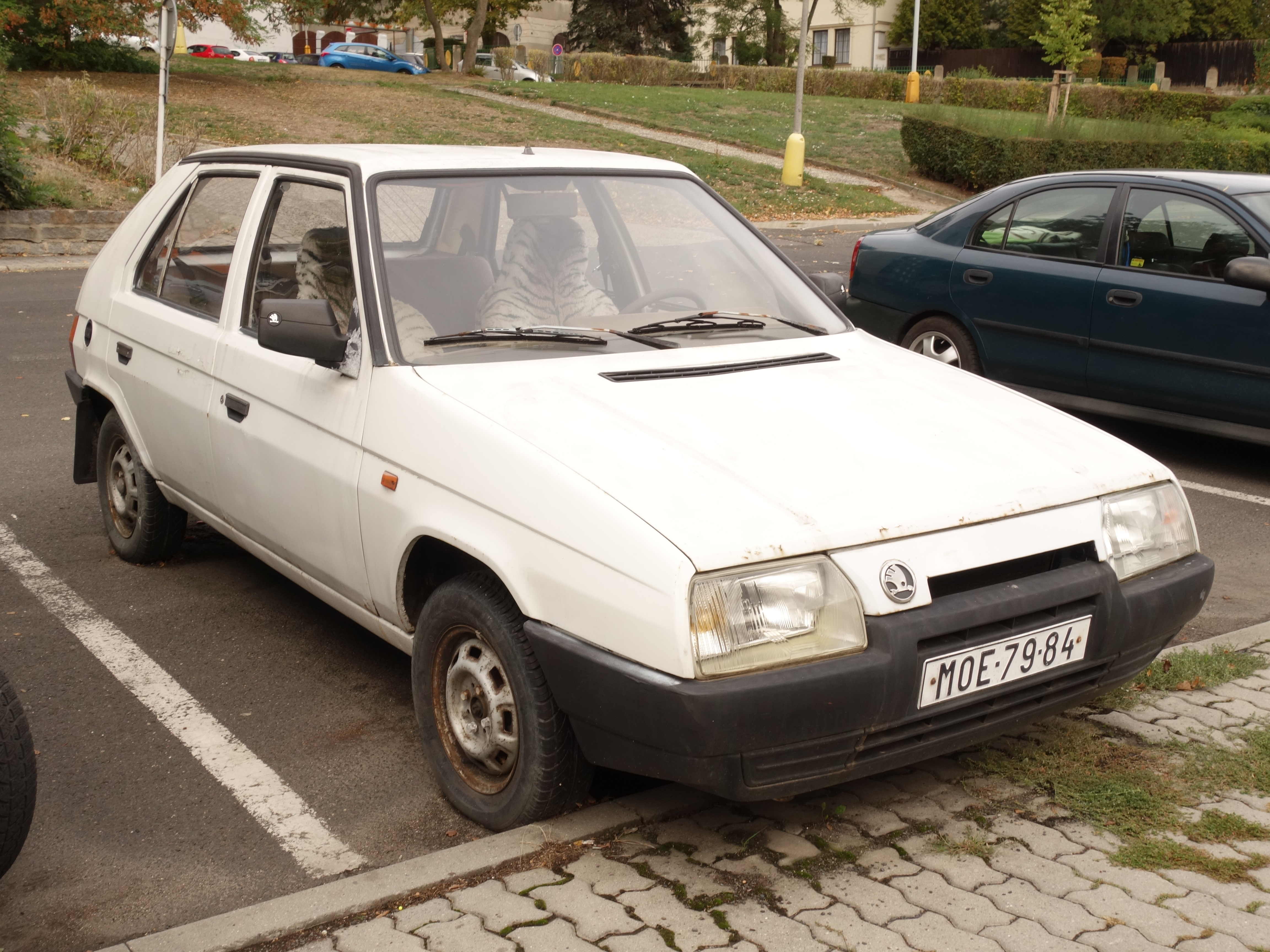 Škoda Favorit in Litvínov (2018)